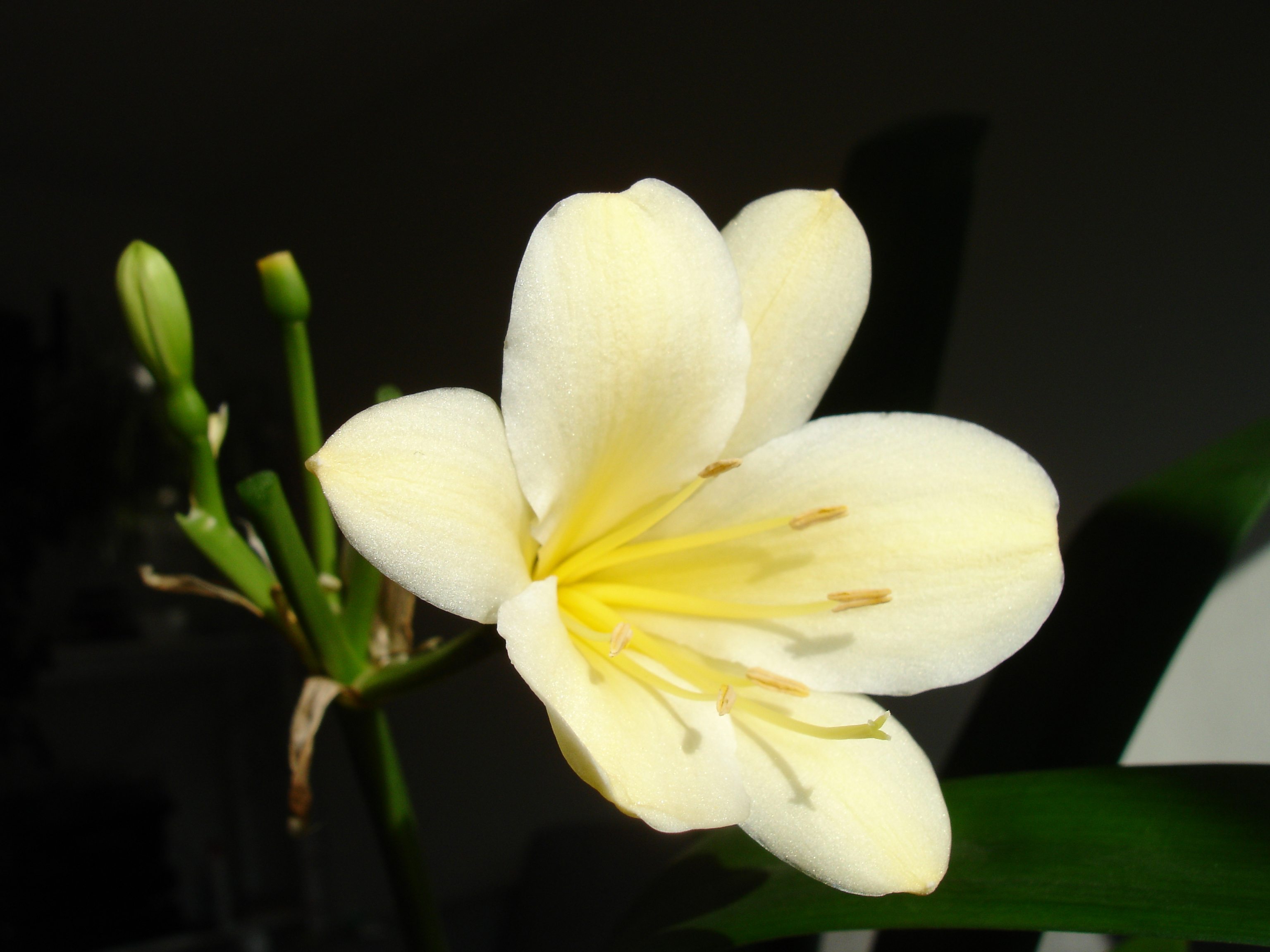 Clivia miniata, yellow cultivar "CITRINA". Last flower of †he wilting plant.